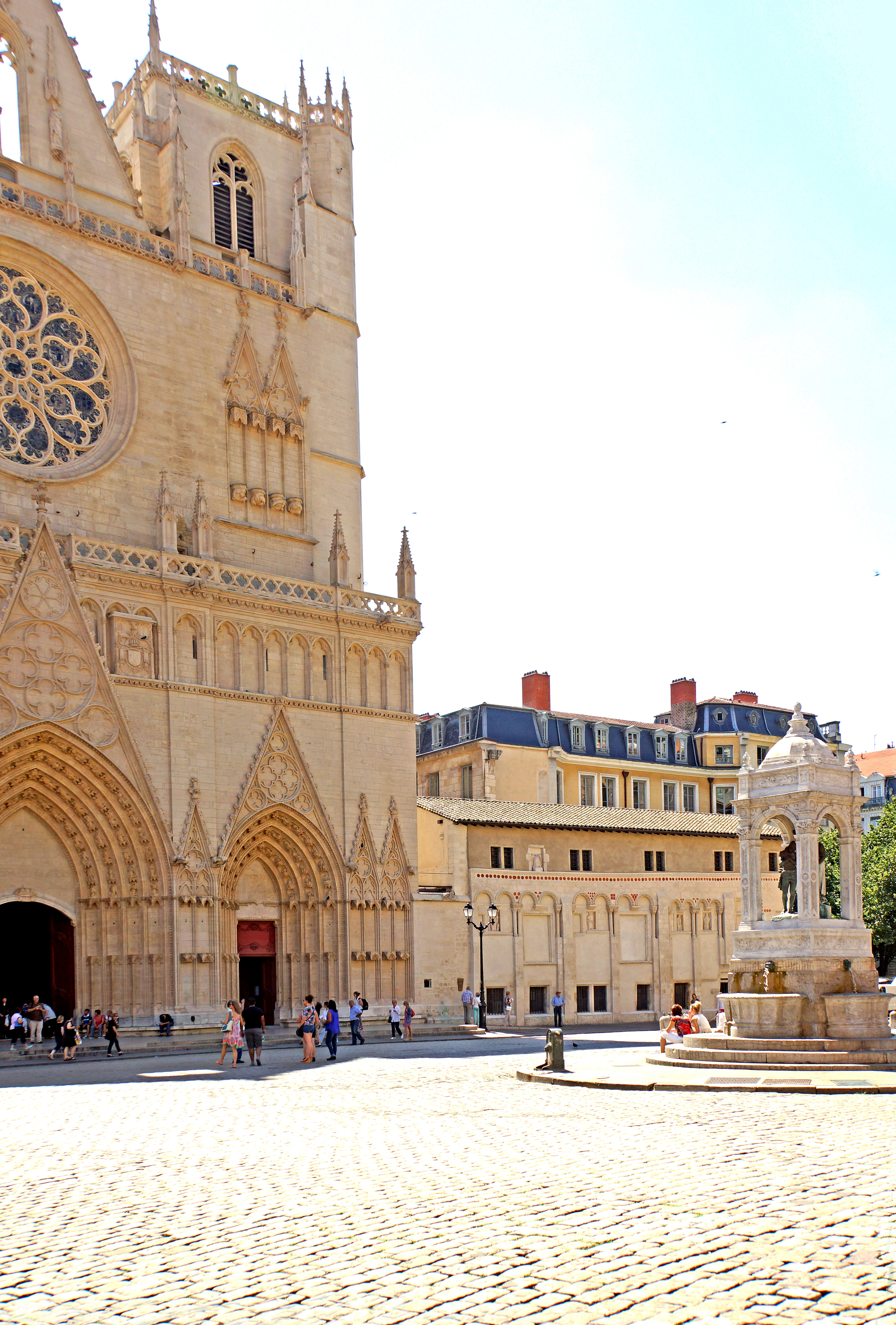 PLEASE, NO invitations or self promotions, THEY WILL BE DELETED. My photos are FREE to use, just give me credit and it would be nice if you let me know, thanks. St John's Cathedral was founded by Saint Pothinus and Saint Irenaeus, the first two bishops of Lyon. Begun in the twelfth century on the ruins of a 6th century church, it was completed in 1476. The building is 80 meters long (internally), 20 meters (66ft) wide at the choir, and 32.5 meters (107ft) high in the nave. In front of St John's Cathedral is a large square with a fountain of Christ being baptised by John the Baptist